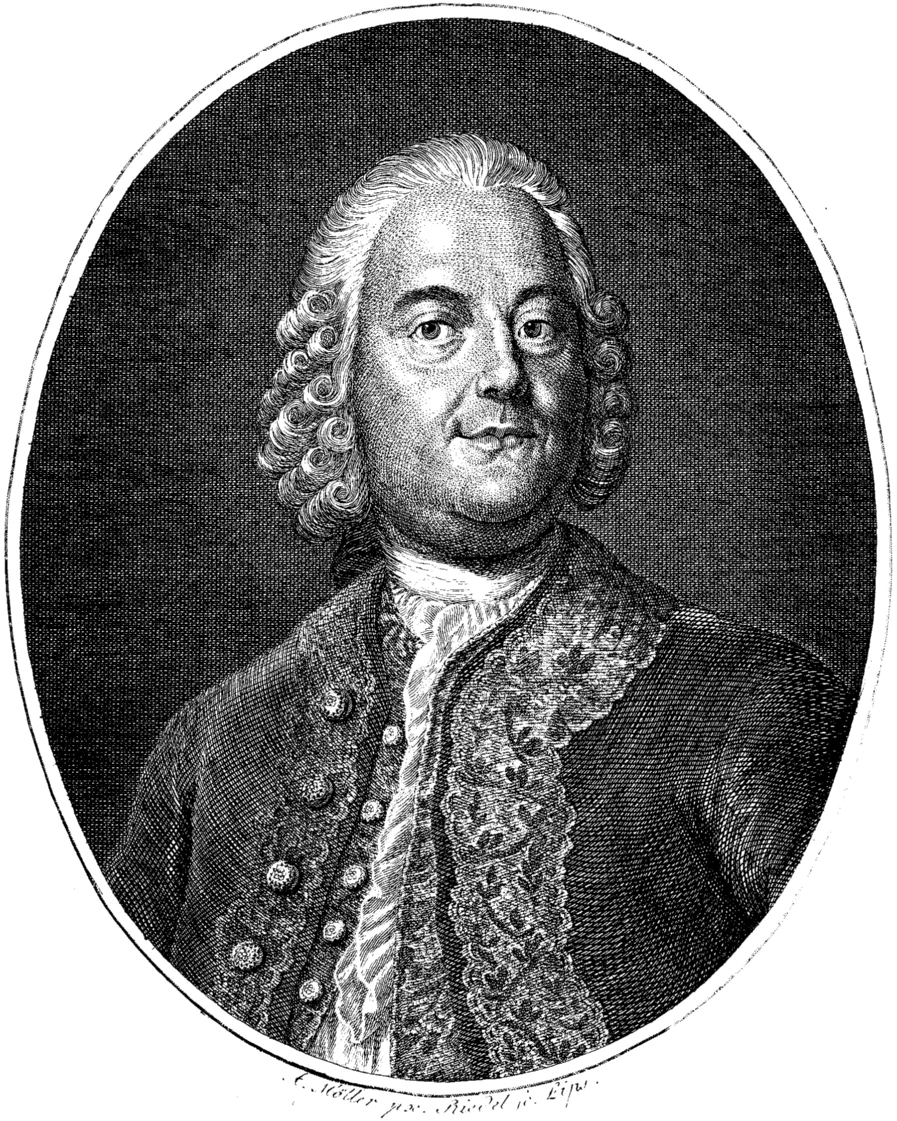 Depicted person: Carl Heinrich Graun